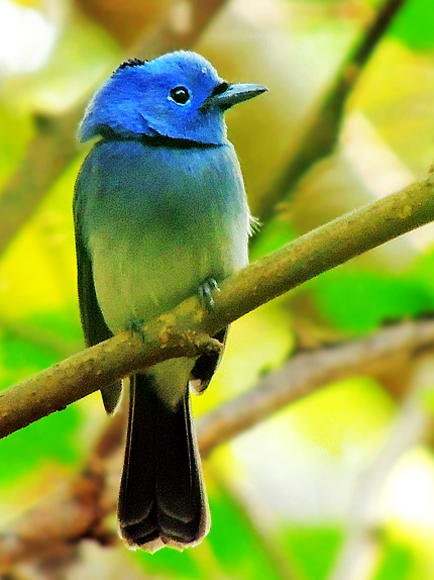 Male Black-naped Monarch Flycatcher Hypothymis azurea in Mangaon, Maharashtra, India